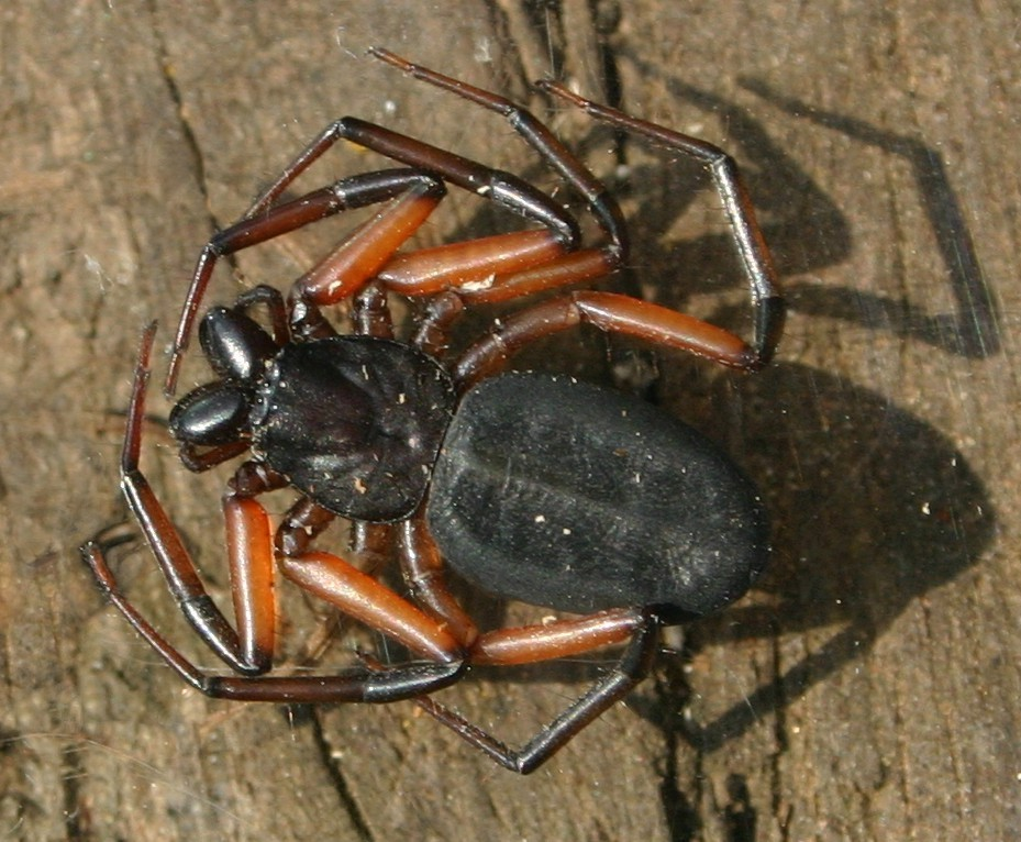 Platyoides sp., Scorpion spider, Trochanteriidae